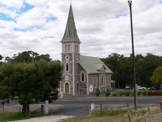 The St Petri Lutheran Church at Eden Valley township, Barossa Valley